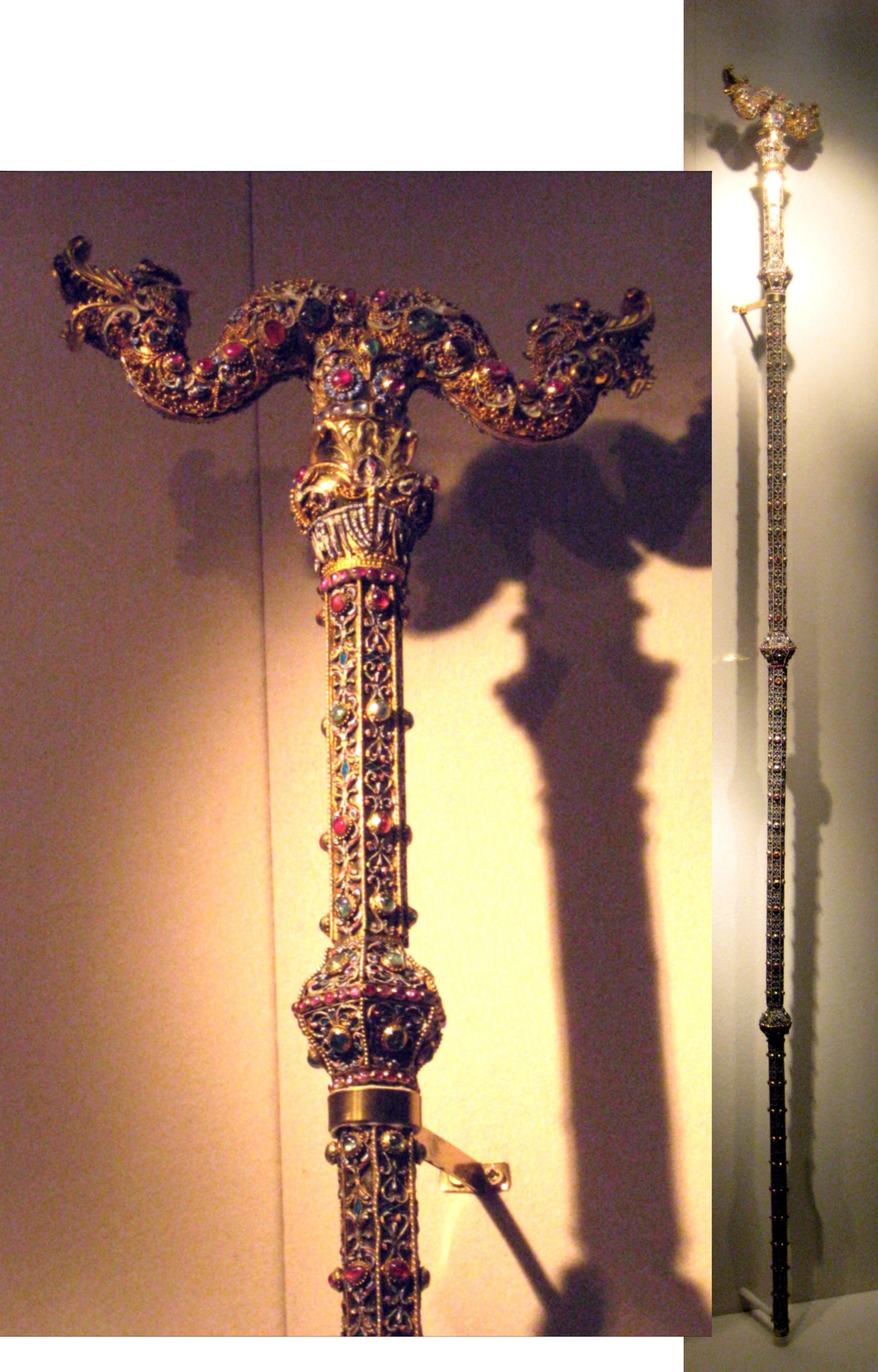 Crozier. Armenia, 1st quater of 19 c. Gold, silver, saphires, emeralds, rubies, almandine, corundes, wood, enamel, gilt, filigree, cast